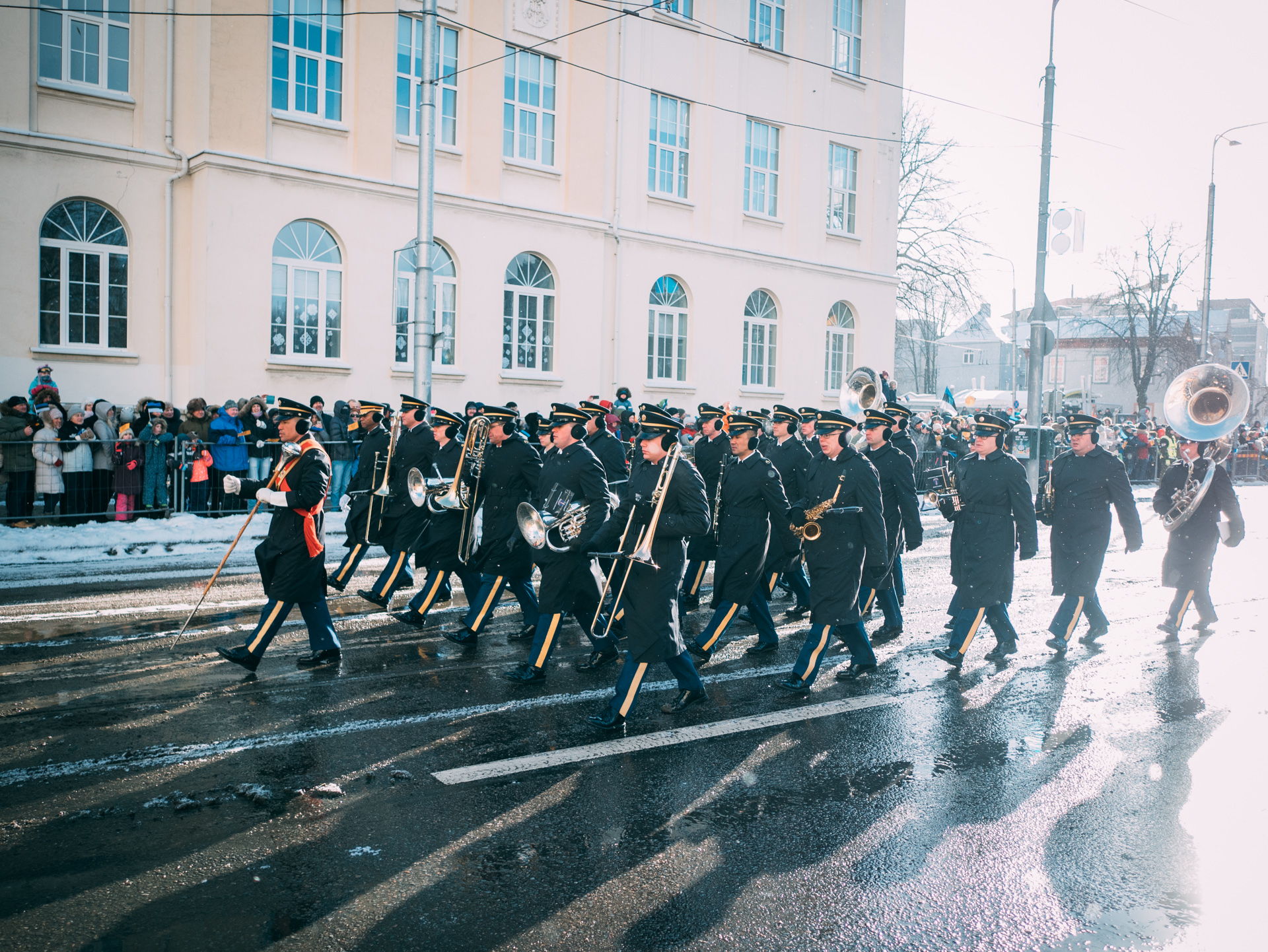 Estonia's 100 Years of Independence Parade in Tallinn